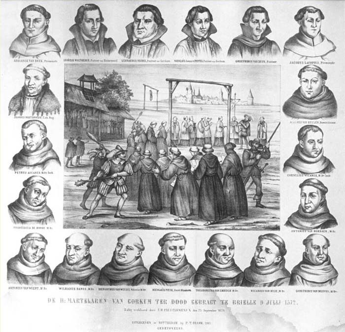 The Holy Martyrs of Gorkum put to death in Brielle (Brill) on 9 July 1572. They were declared saints 3 centuries later in 1867.